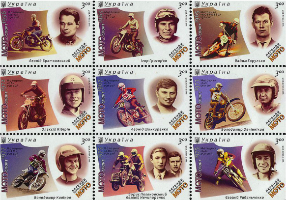 Ukrainian postage stamps 2016: Legends of Ukrainian motocross. From left to right, top to bottom: Leonid Bratkoysky on a M-72 750 cc (1956) Igor Grigoriev on a CZ 250 cc (1963) Vadim Horulko on a Kovrovets 250 cc (1965) Alex Kibirin on a CZ 250 cc (1972) Leonid Shekarenko, on a CZ 250 cc (1967) Vladimir Ovchinikov on a CZ 500 cc (1973) Vladimir Kavinov on a KTM 250 cc (1977) Boris Pohanovskyy and Eugene Nechiporenko on a Dnepr 750 cc (1975) Eugene Ribalchenko on a CZ 250 cc (1975)